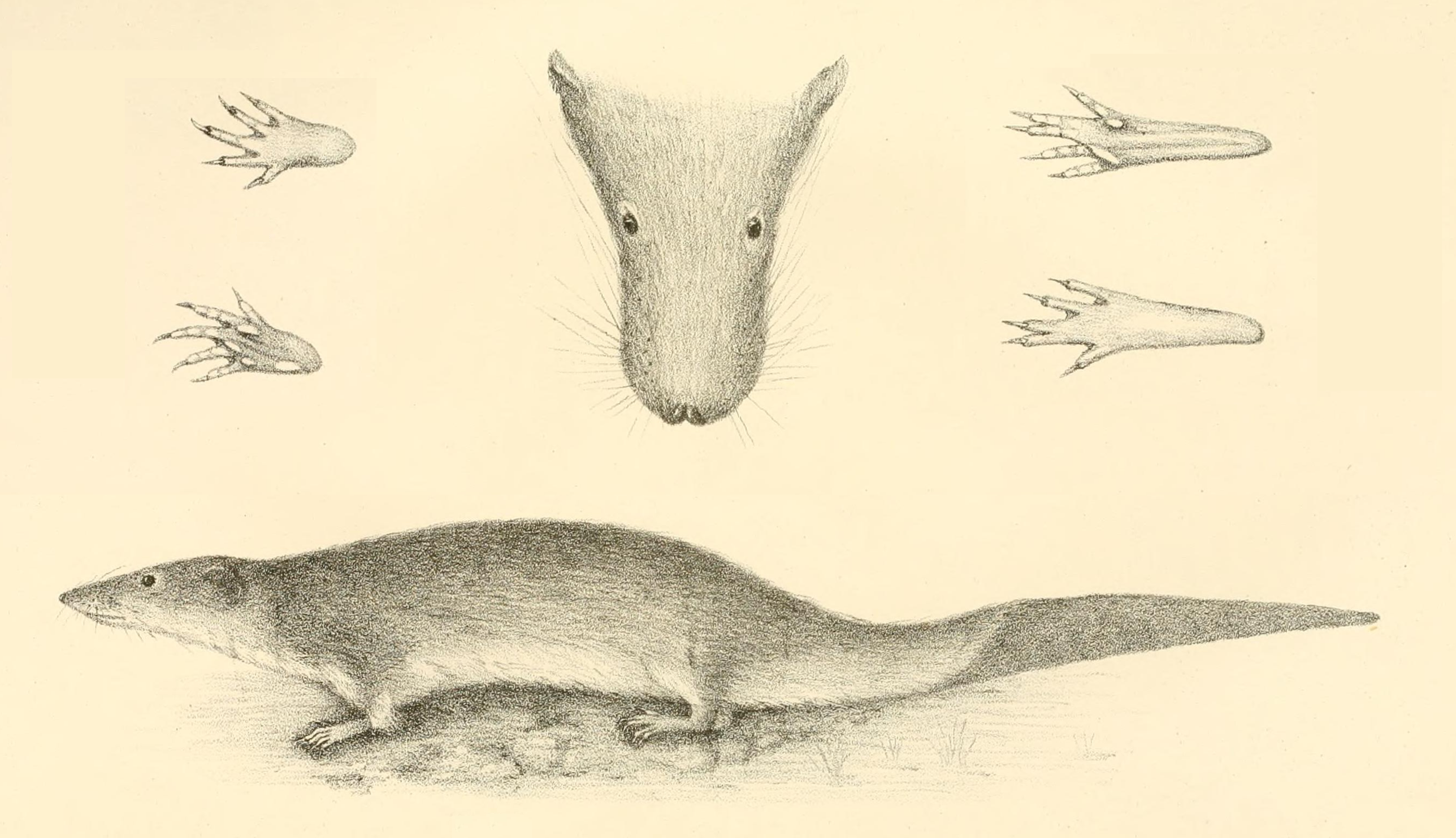 Drawing of the Giant Otter shrew (Potamogale velox, published by José Vicente Barbosa du Bocage 1867